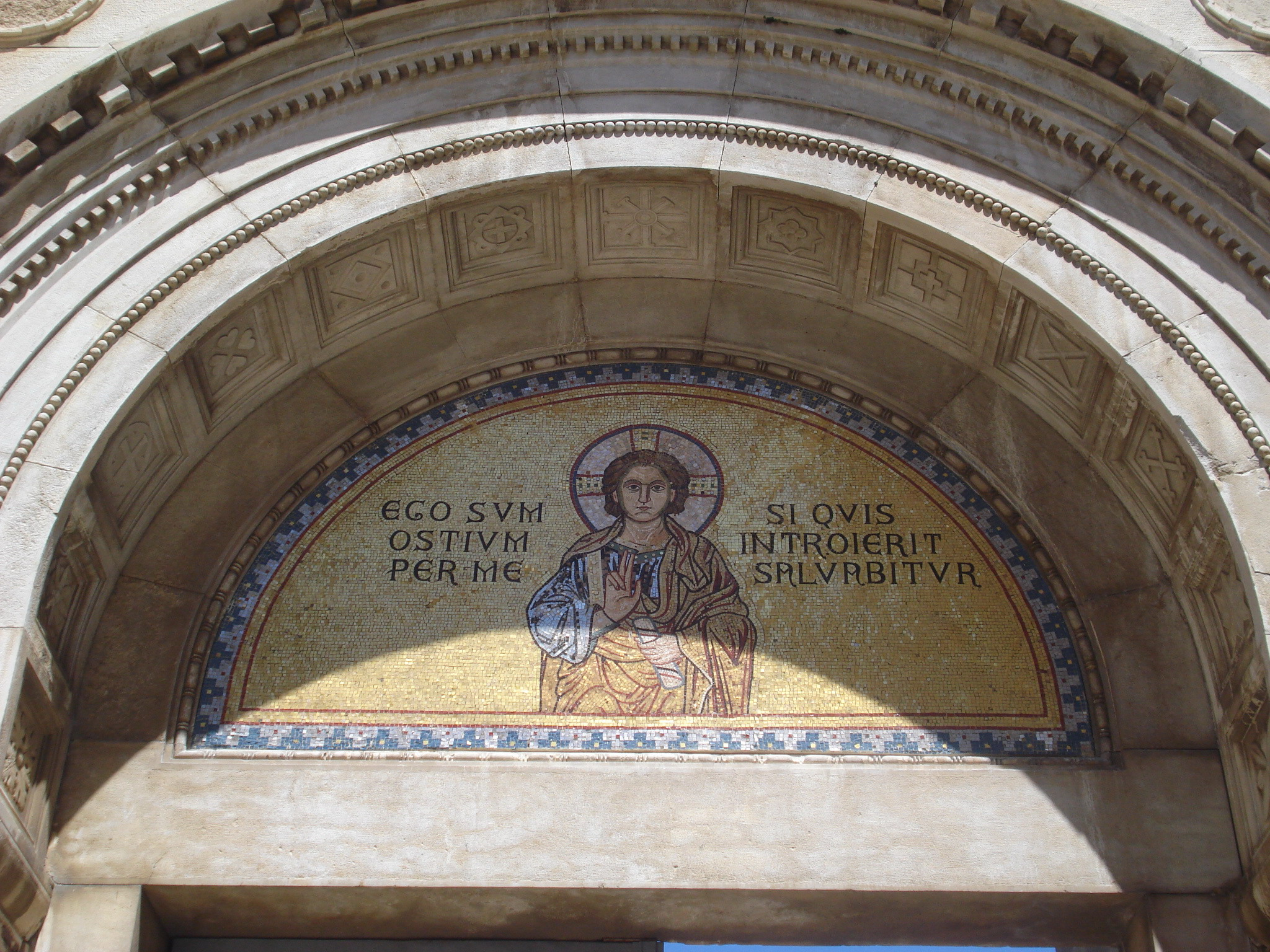 Euphrasian Basilica in Poreč, Croatia - entrance inscription